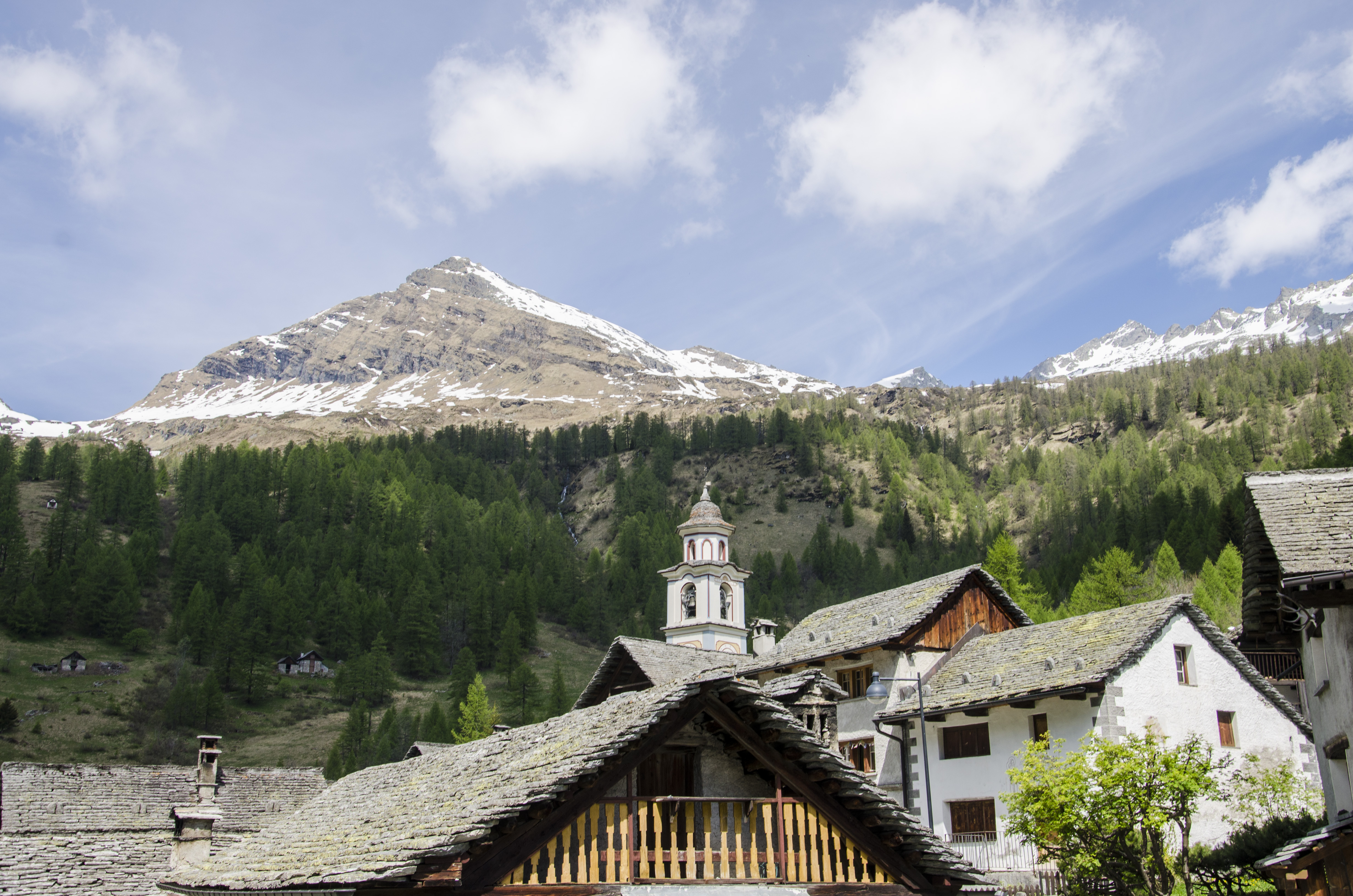 Progetto Parco Nazionale del Locarnese - Pizzo Biela, view from Bosco Gurin